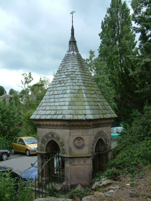 Billy Hobby's Well Designed by Chester architect John Douglas; viewed from inside Grosvenor Park.